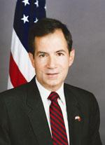 This is the picture of Grover Joseph Rees III. It is taken from U.S. Department of State website. This picture is used in the biography page of Grover Joseph Rees III.